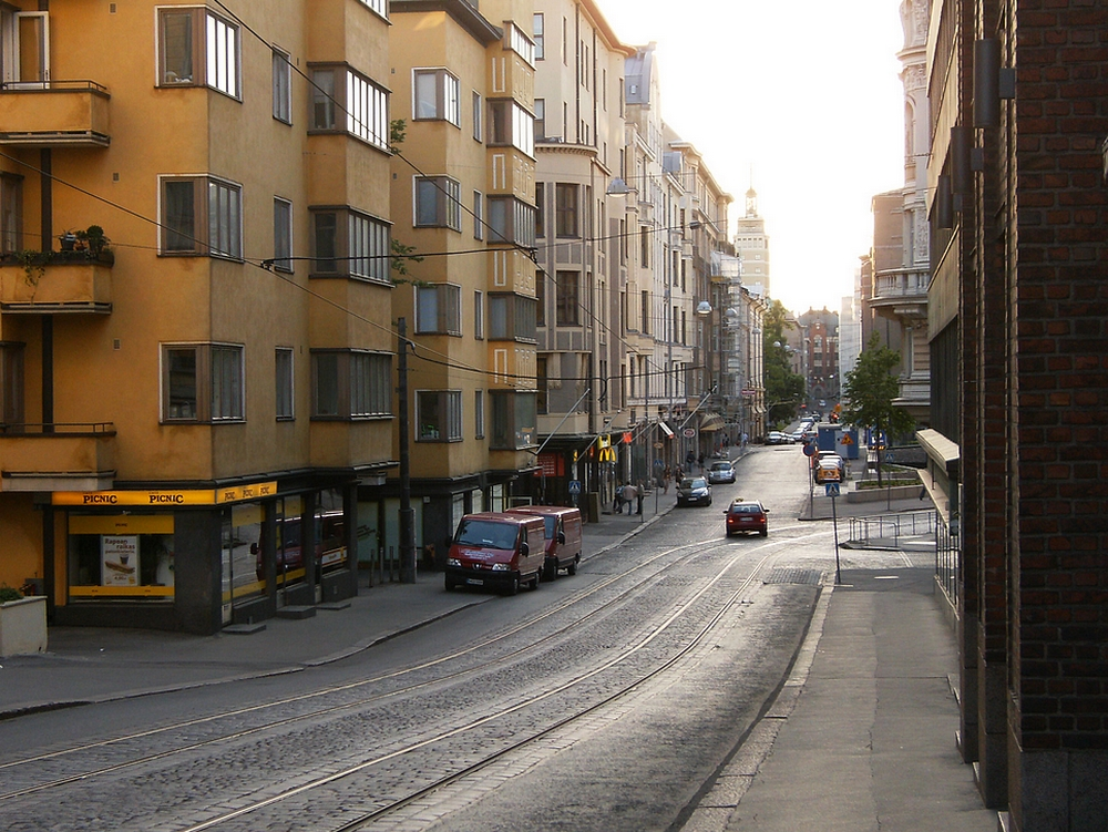 Yrjönkatu in Helsinki, Finland, view from south-east to north-west